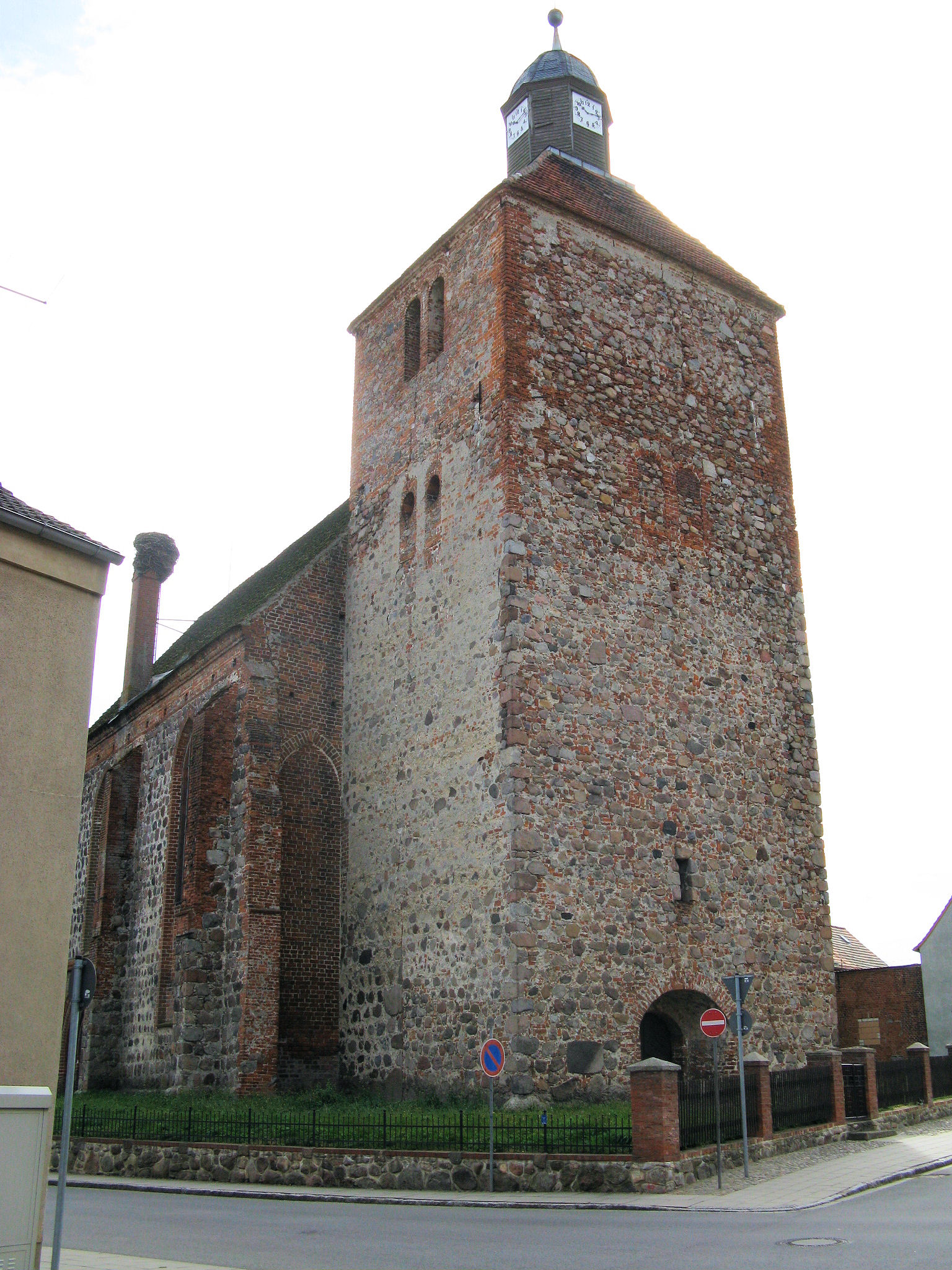 Church in Freyenstein, disctrict Ostprignitz-Ruppin, Brandenburg, Germany